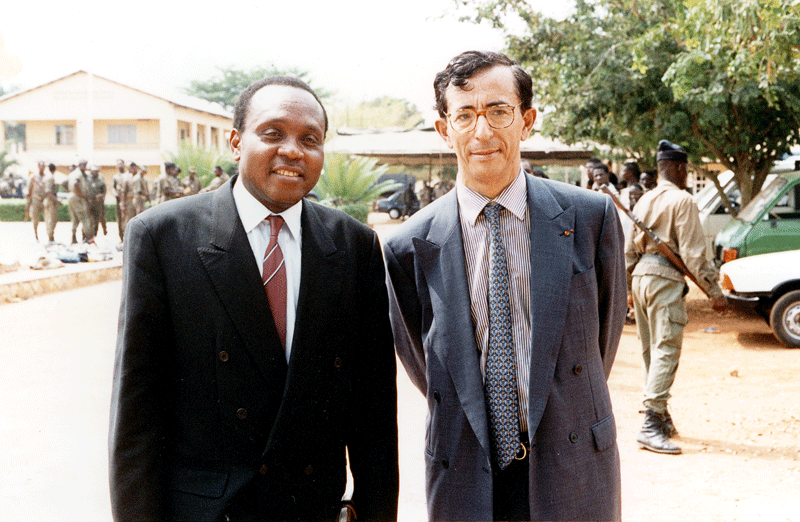 Charles Debbasch (r) with Gnassingbé Eyadema adviser Koffi Panou (l) in Lomé, Togo, in 1994.